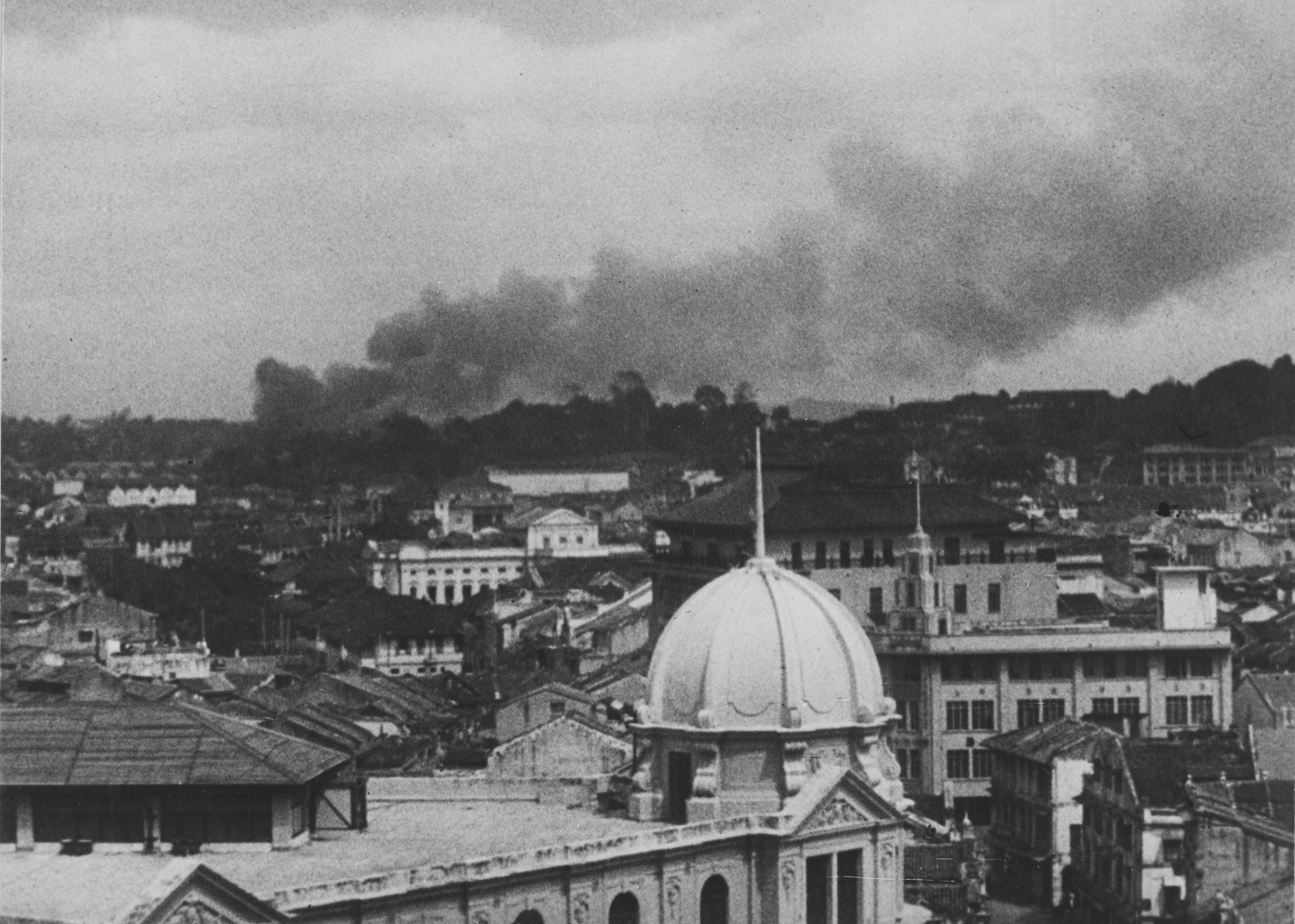 View of Singapore, probably after a Japanese air attack in early 1942.